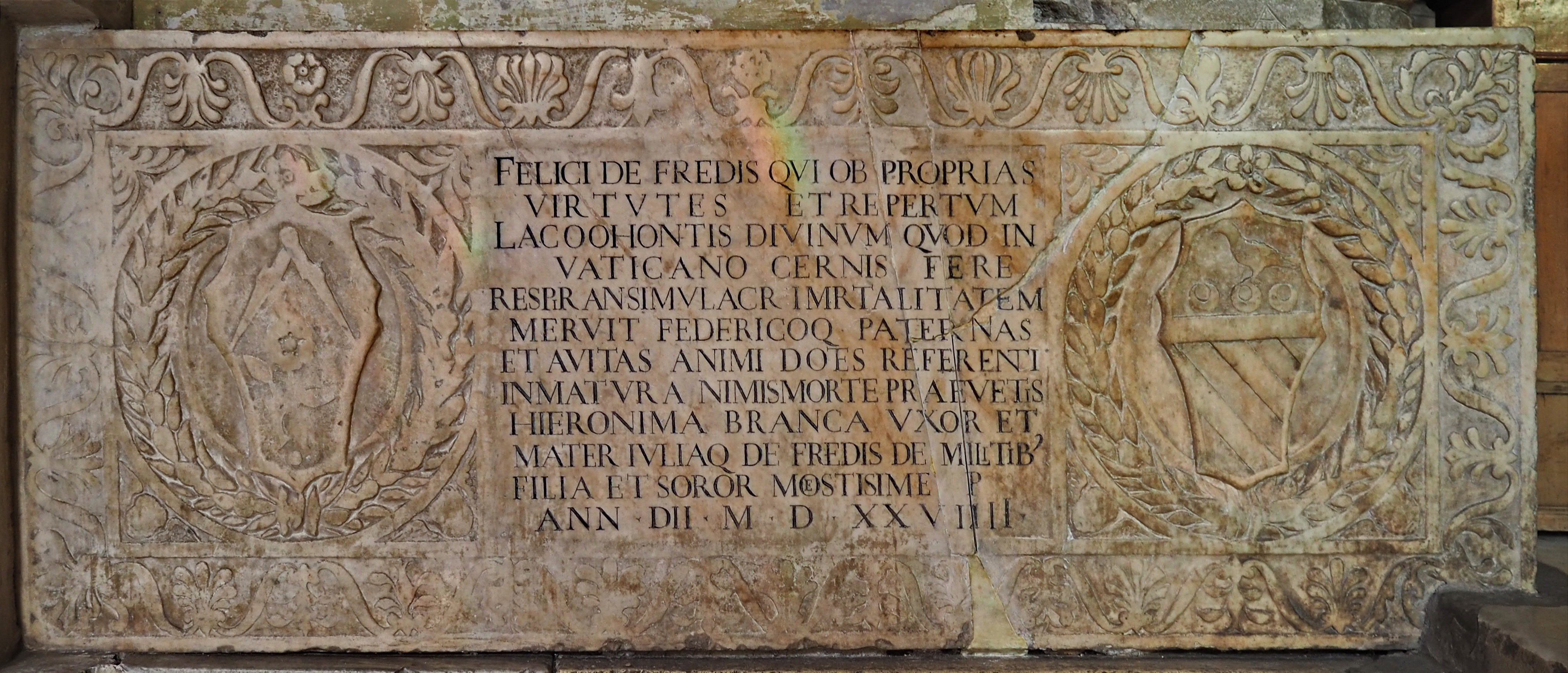 Santa Maria in Aracoeli (Rome), Tombal plate for Felice de Fredis